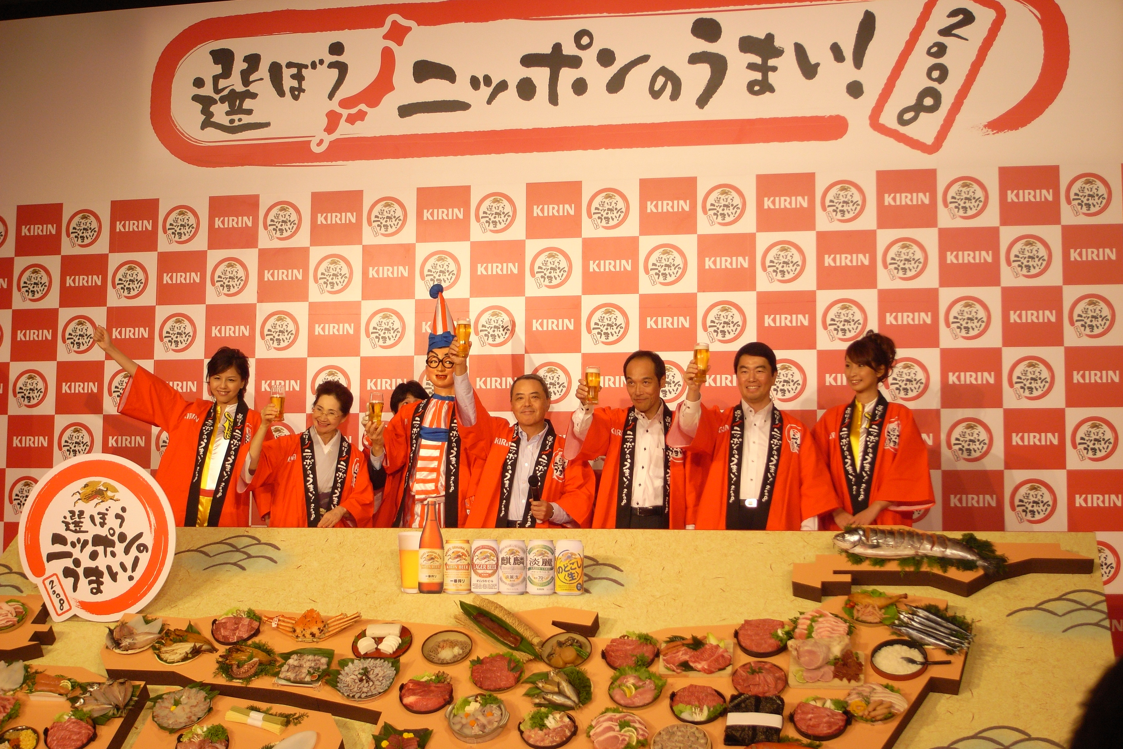 Hideo Higashikokubaru (the third from the right), during the Kirin Brewery Company's event in 2008.